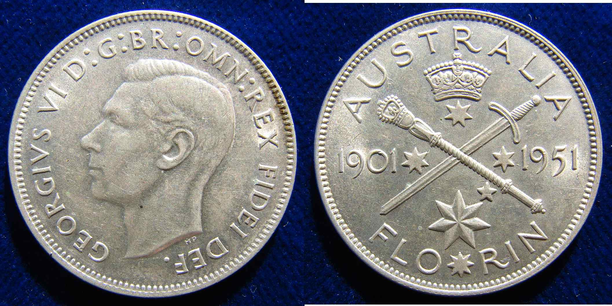 Commemorative Florin George VI 1936- 1952 Head l., surrounding : "GEORGIVS VI D: G: BR: OMN: REX FIDEI DEF."/ Crowned crossed scepter and sword over Southern Cross stars divide jubilee dates "1901" and "1951", surrounding : "AUSTRALIA FLORIN". KM 47. Museum Victoria Reg. No: NU 23891. Medallists: HP (Thomas Humphrey Paget), Sculptor, 1893 Watford, Hertfordshire bei London, England - 1974 Sussex / William Leslie Bowles, Sculptor, 1885 Leichhardt, Sydney, New South Wales - 1954 Frankston, Victoria Condition: An ALMOST UNCIRCULATED coin with much lustre.